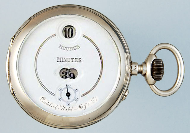 Cortébert Jump-hour from 1890s, Pallweber movement